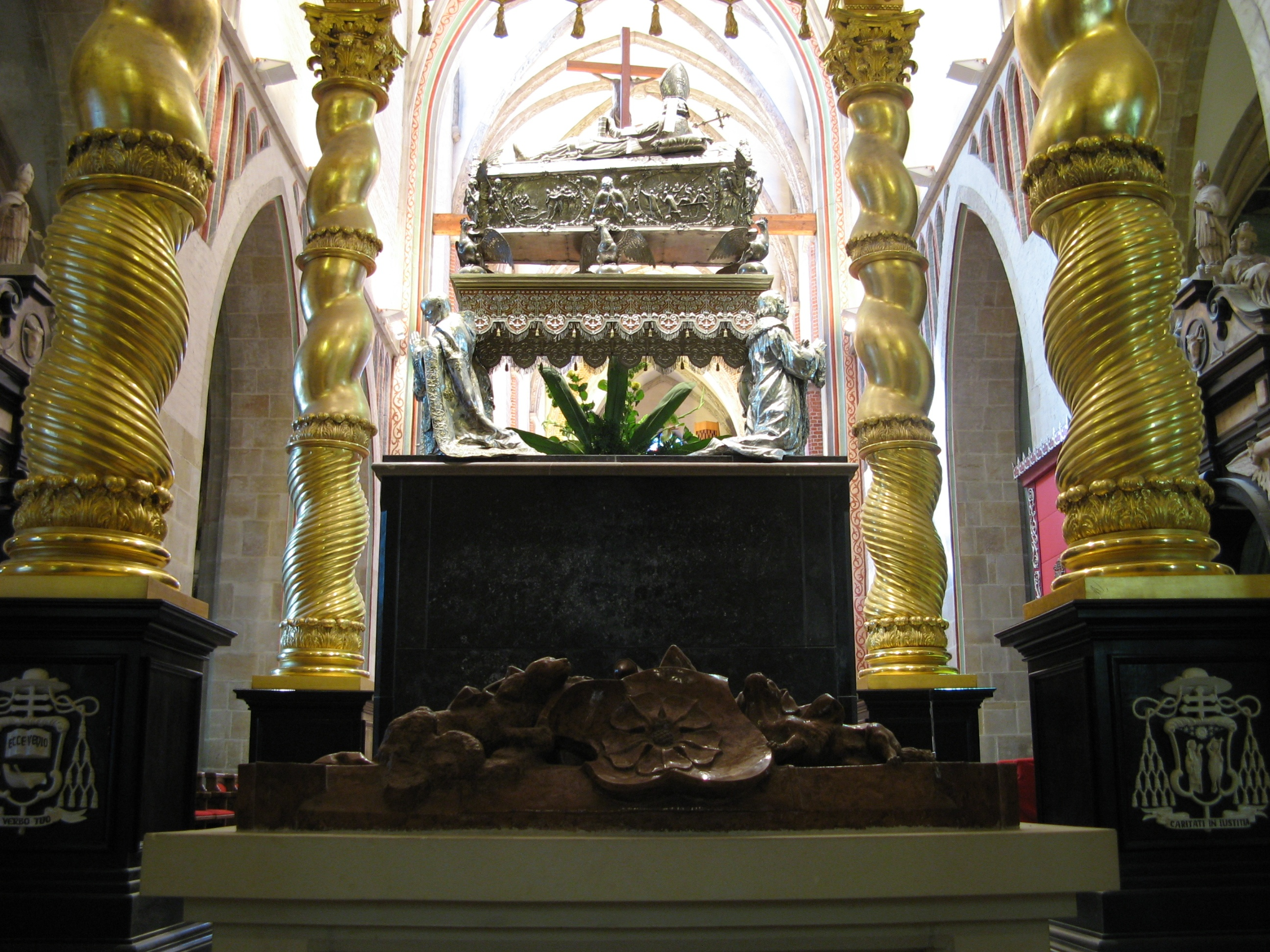 Gniezno Cathedral